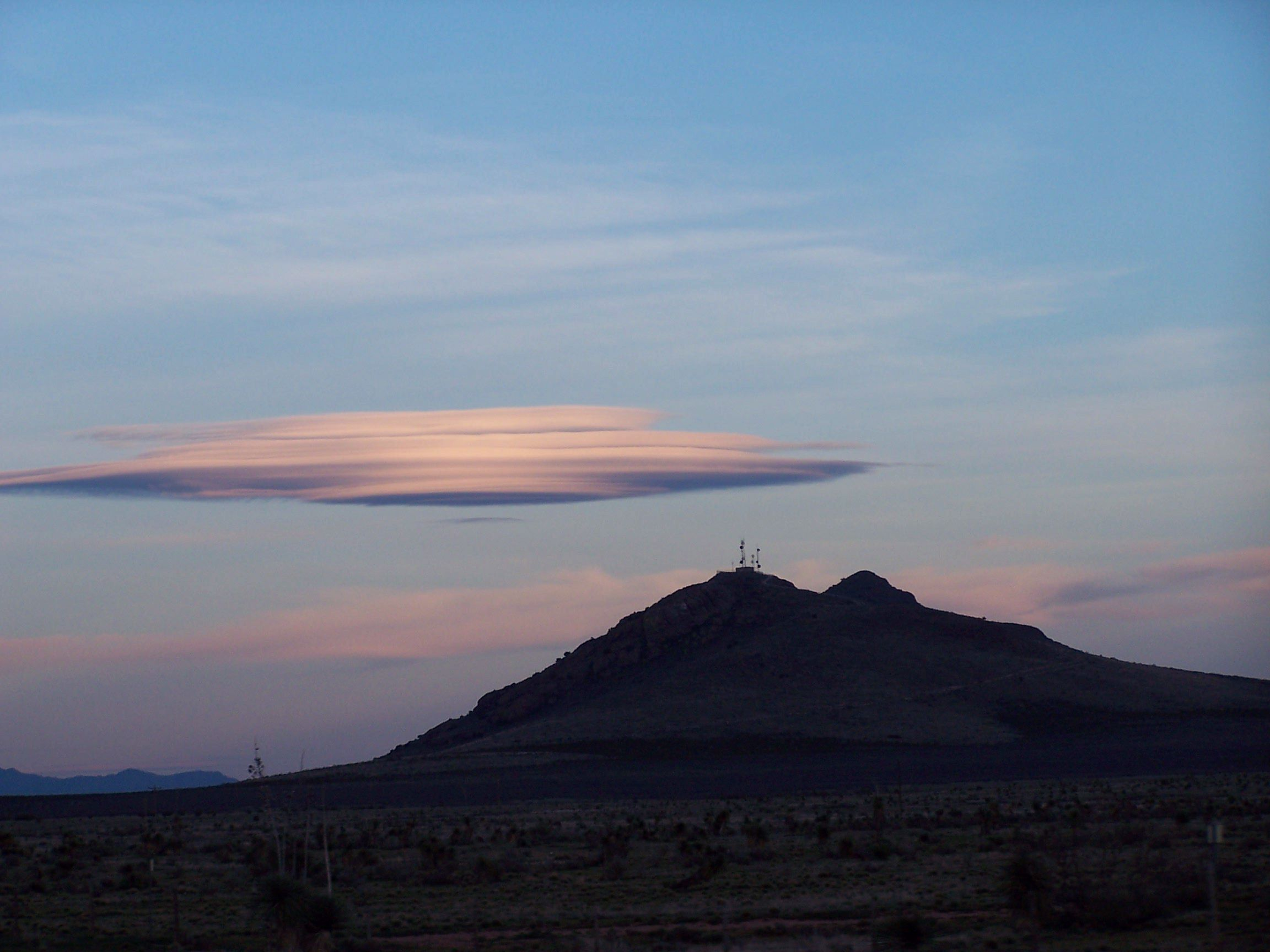 Lenticular cloud over New Mexico, USA (sometimes mistaken for a UFO, by non-expert observers).